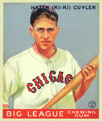 1933 Goudey baseball card of Kiki Cuyler of the Chicago Cubs #22. PD-not-renewed.